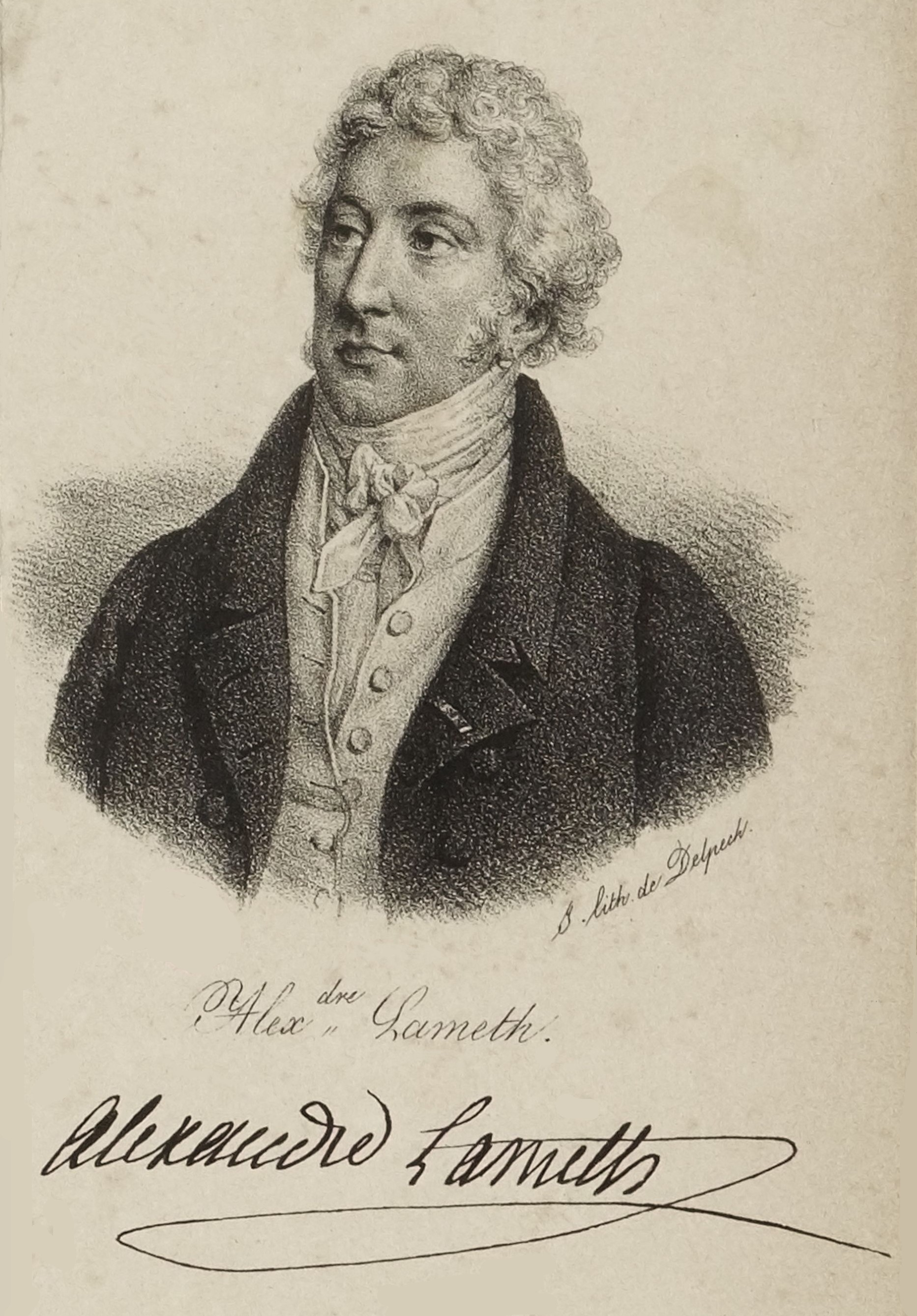 Portrait of Alexandre de Lameth